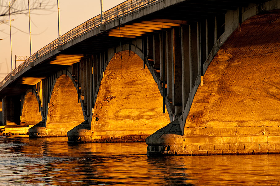 Last light under the bridge